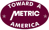 A promotional design created by the National Institute of Standards and Technology to encourage Metrication in the United States.